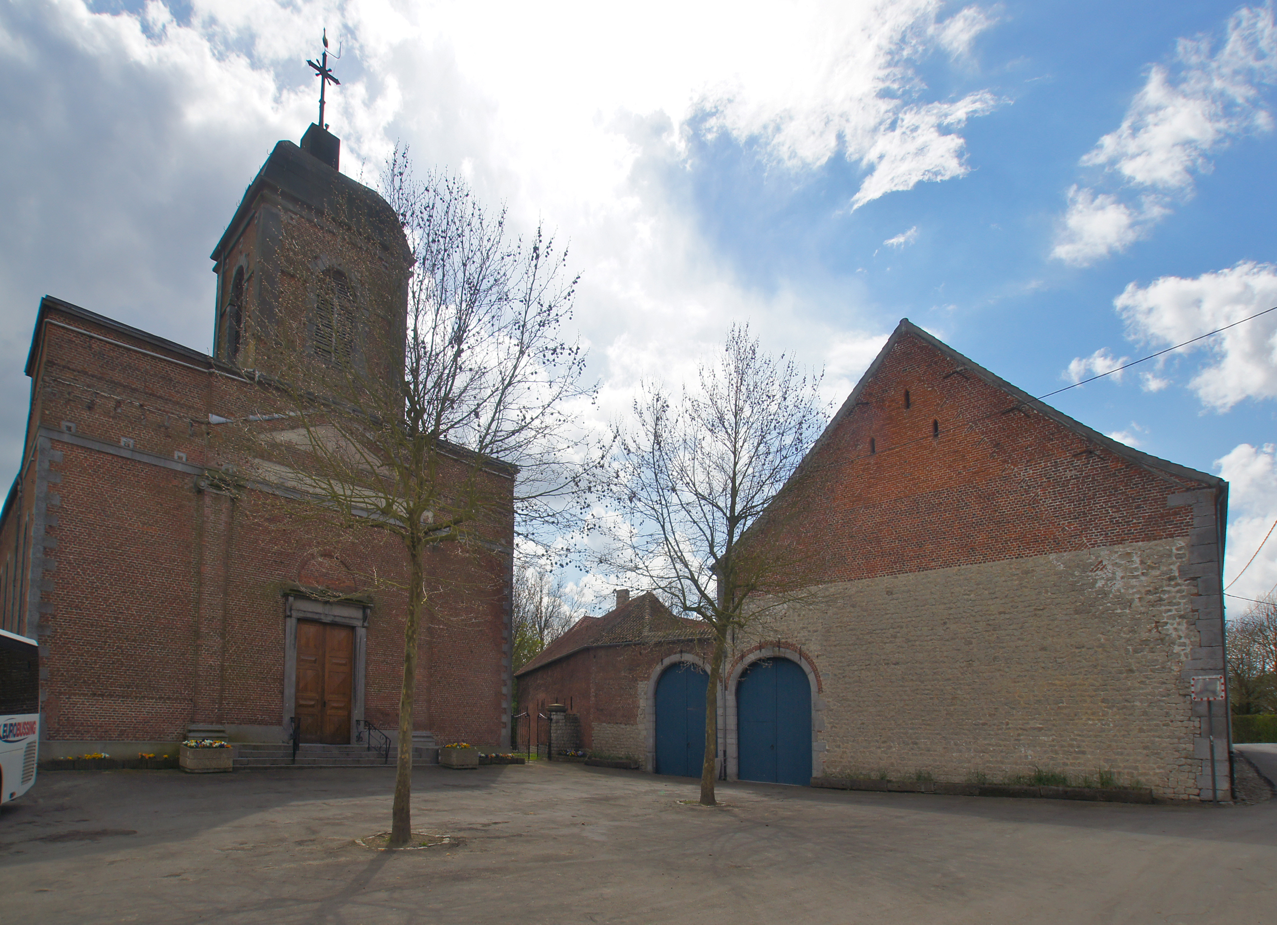 Genappe (Loupoigne): John the Baptist's Church